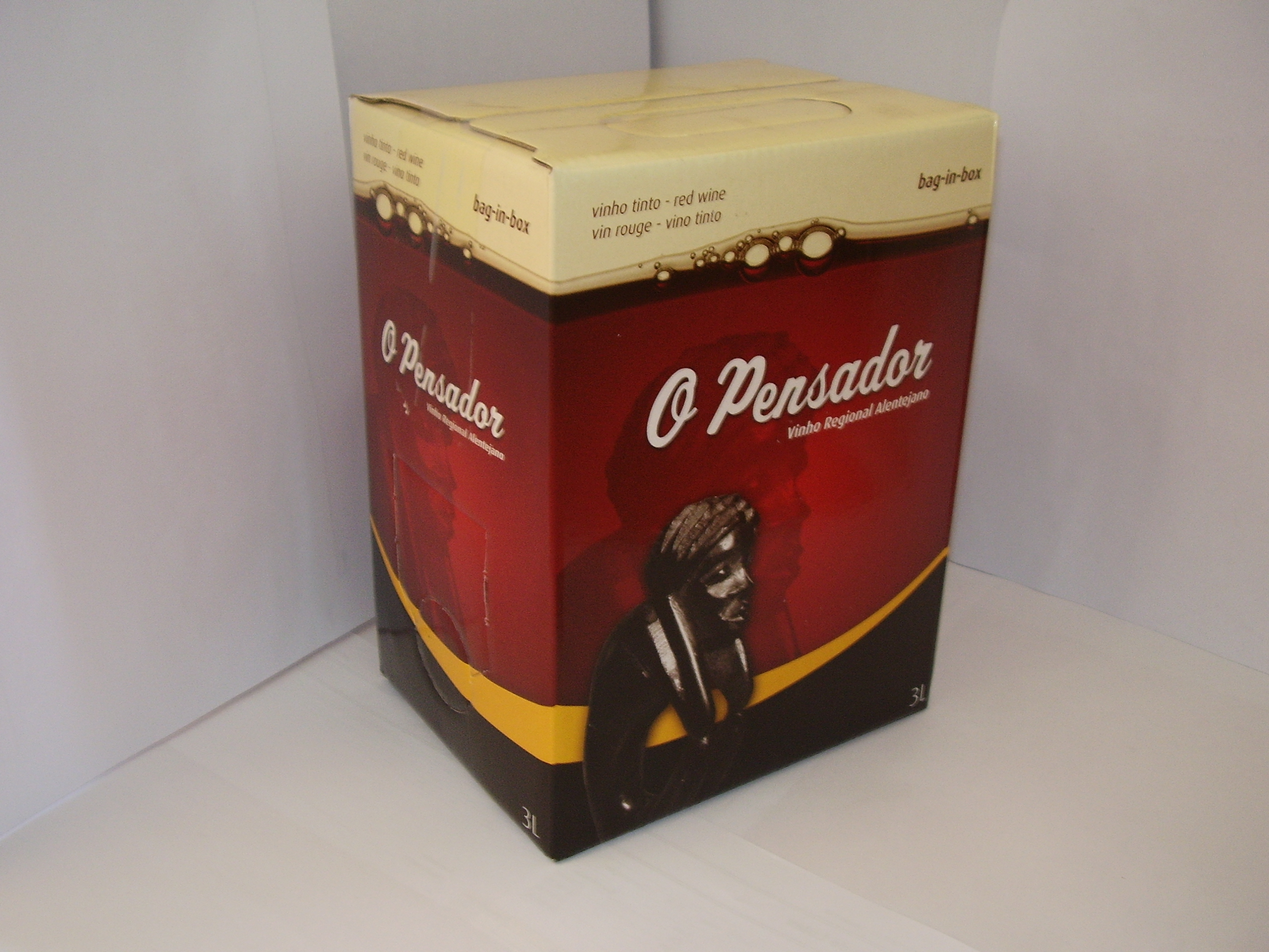 A 3 liter Portuguese box wine